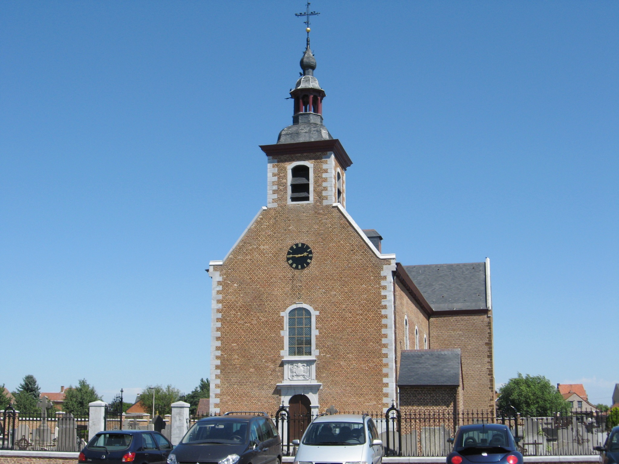 Church of Our Lady's Birth in Donk, Herk-de-Stad, Limburg, Belgium